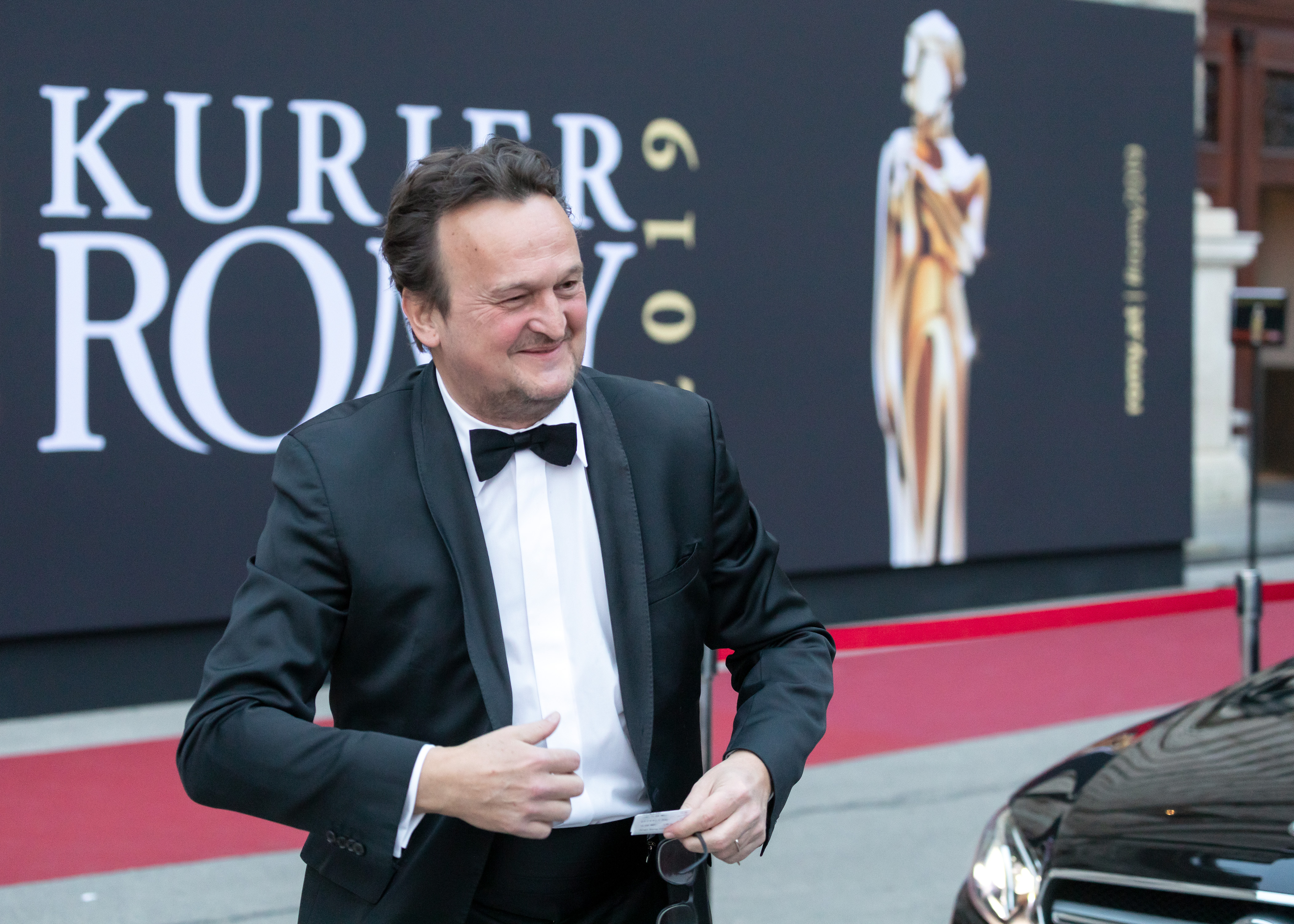 Hanno Settele on the red carpet of the Romy TV awards 2019 at Hofburg Palace in Vienna, Austria.